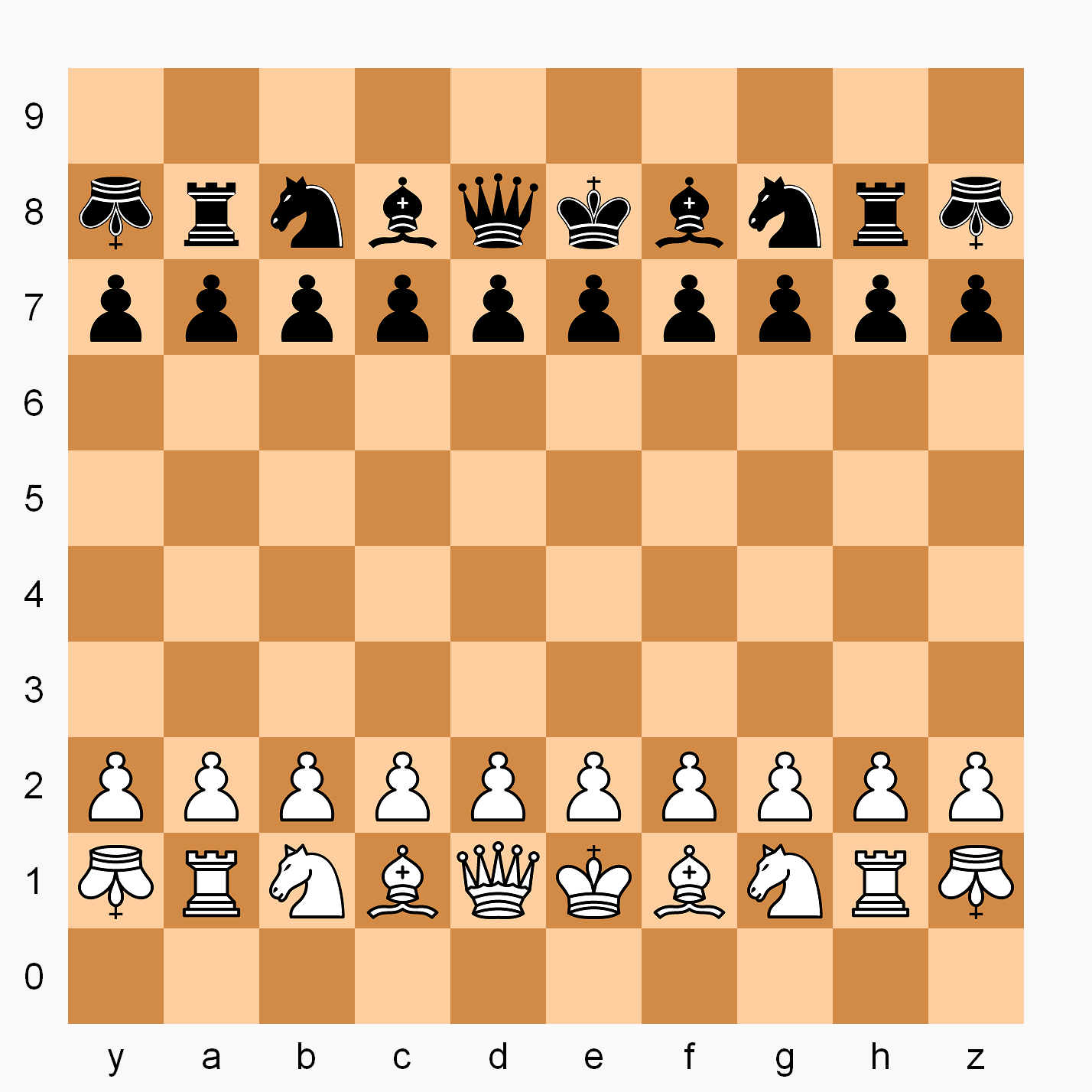 Using the great free-use chess icons fashioned by David Benbennick (User:Dbenbenn). All done in MSPAINT.